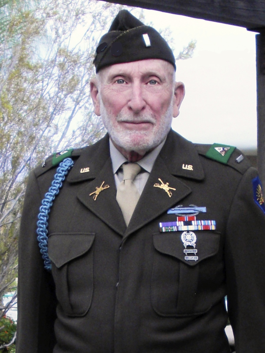 Donald Prell wearing a WWII garrison cap and “Ike” Jacket, but with insignia items (e.g., Armor insignia, expert rifle badge) and blue infantry cord that were not conceived of until years after WWII (photo from 2009)